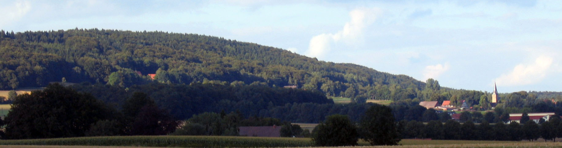 View from Melle-Buer towards the town of Rödinghausen-Westkilver, Germany, situated at the southern slope of Wiehengebirge.